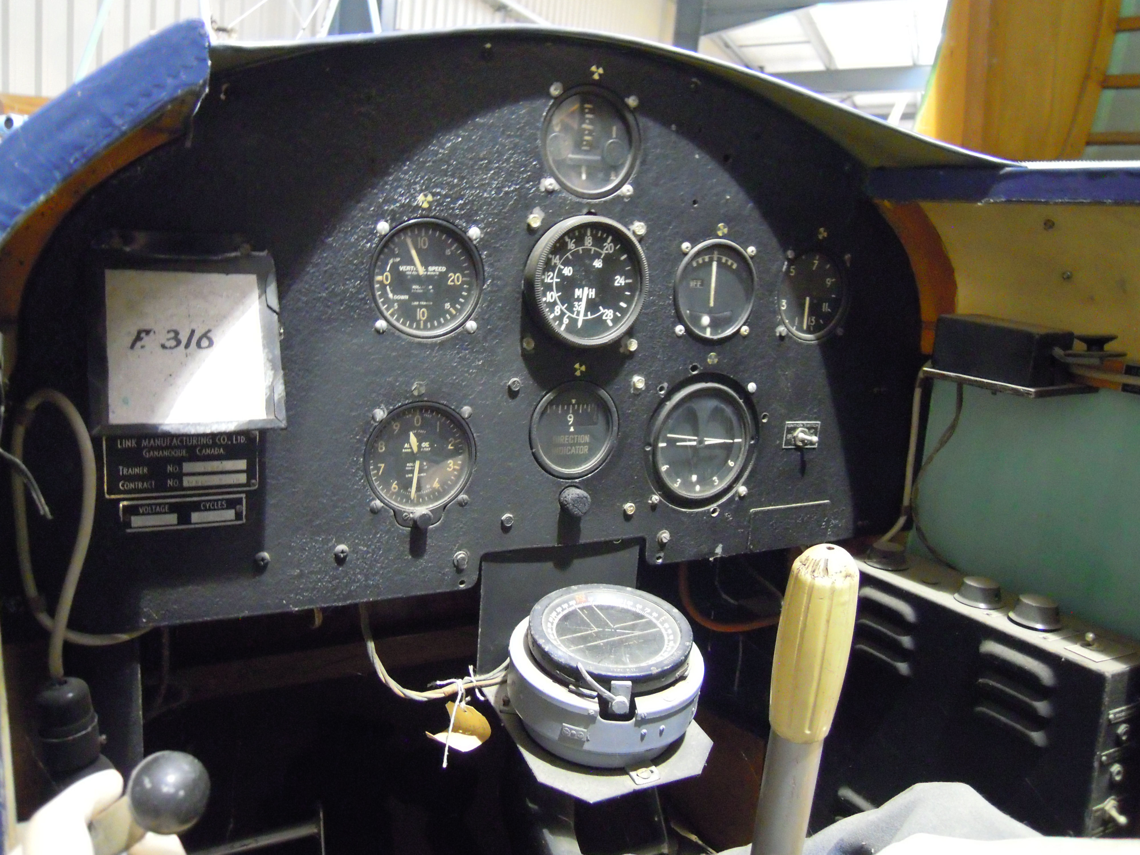 The instrument panel of the Link Trainer on display at the Shuttleworth Collection near Biggleswade in Bedfordshire